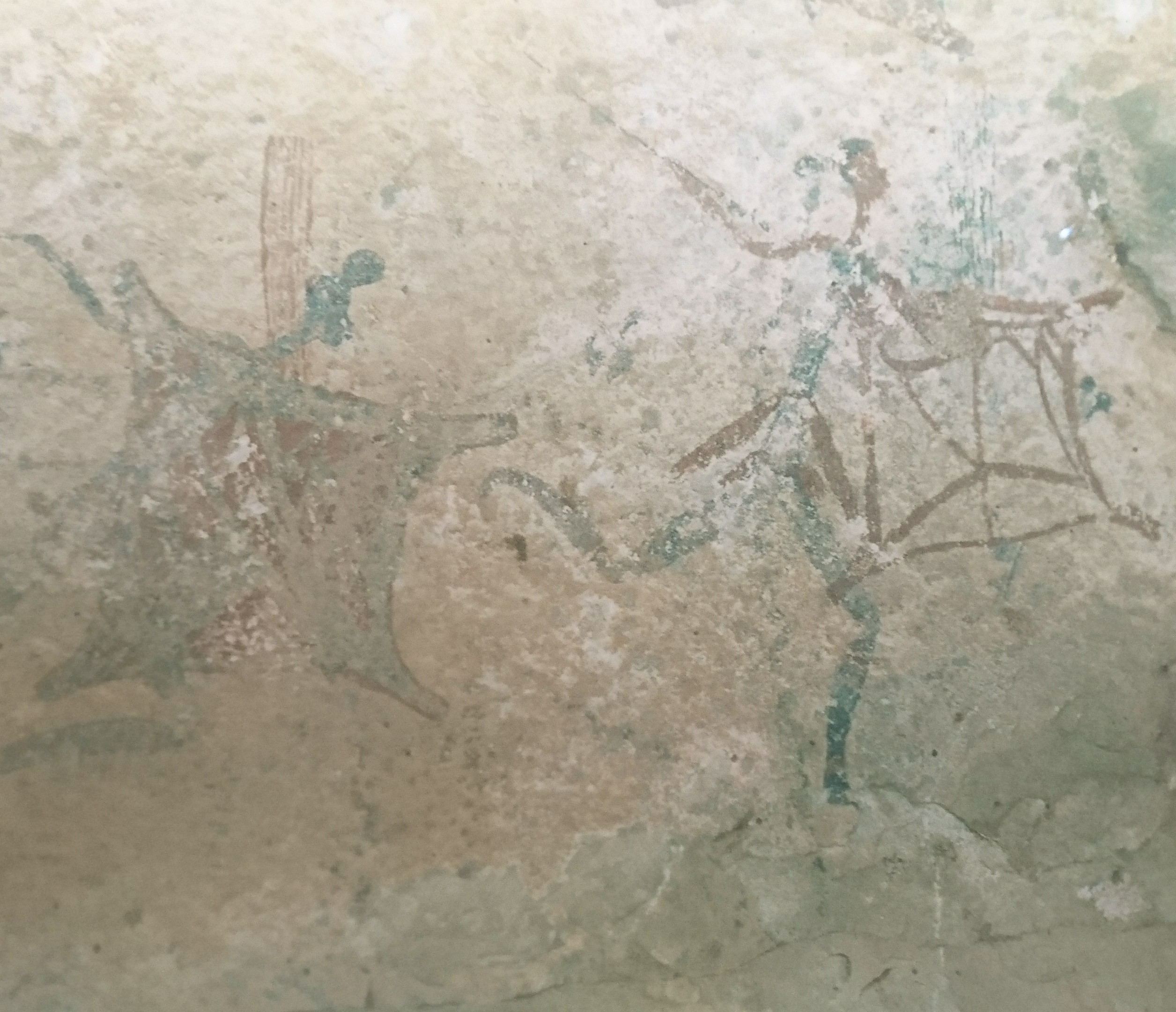 A photograph of a San rock art painting on display at the Iziko Museum in Cape Town from the Drakensberg in Lesotho. It is believed to depict Nguni or Sotho warriors who migrated southwards and settled in the summer rainfall regions of Southern Africa within the last 2000 years.